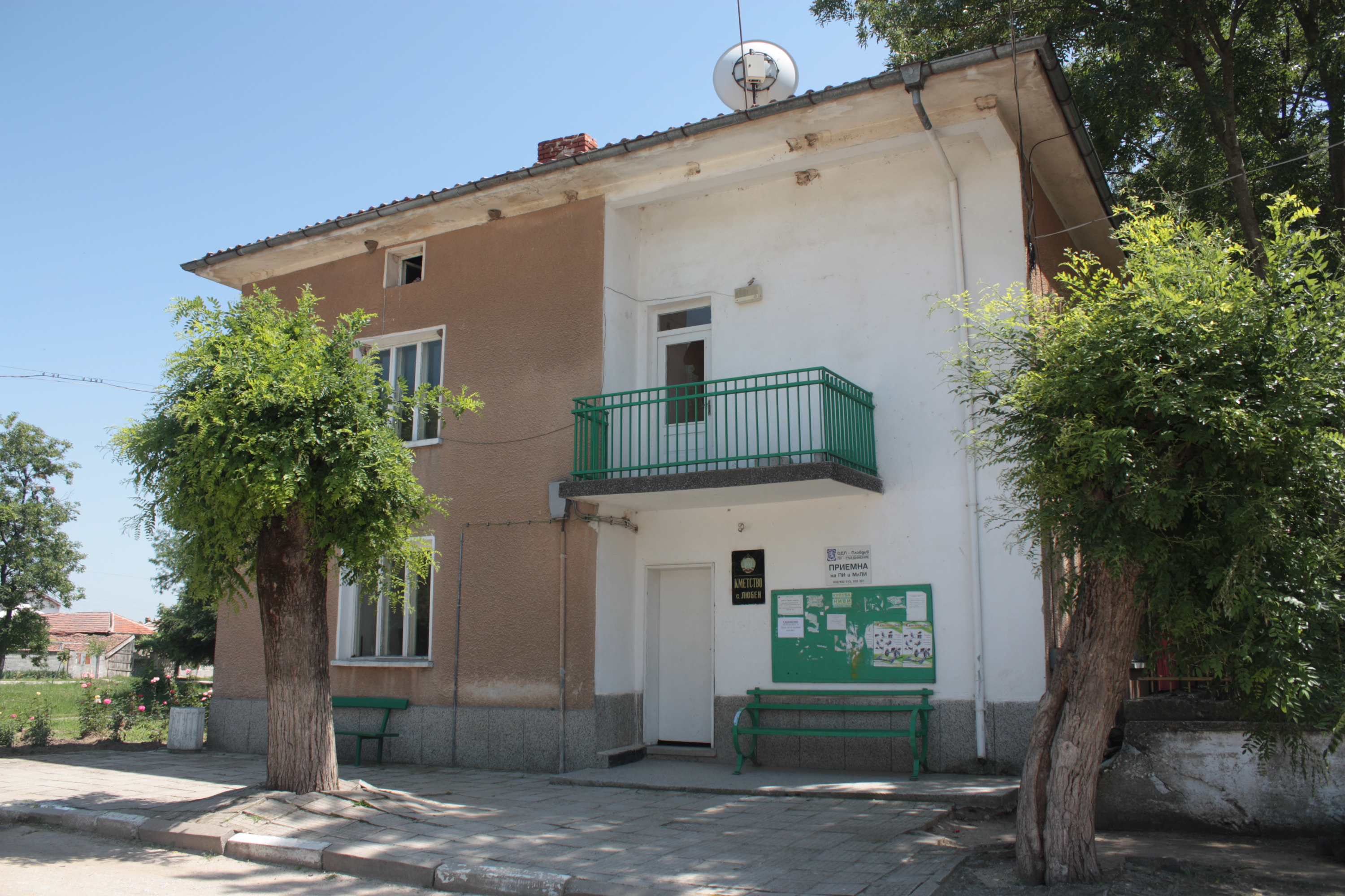 Municipaliti office (Kmetstvo) in Lyuben village, Bulgaria